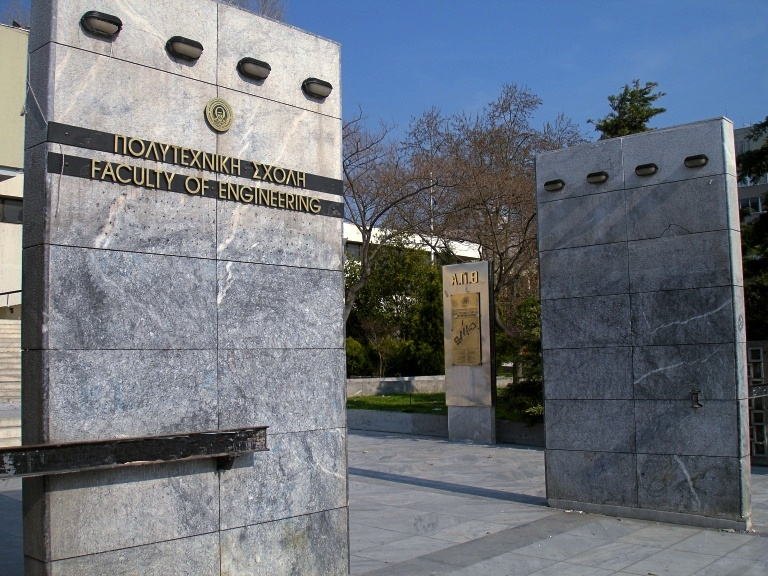 The gate of the Polytechnic Faculty of Aristotle University of Thessaloniki.